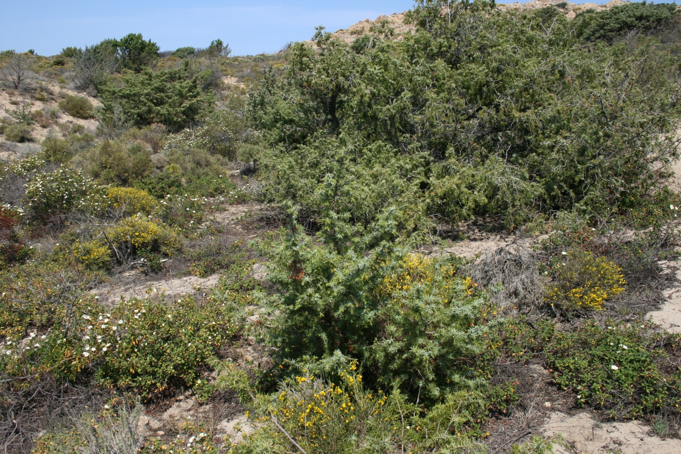 Corsican garrigue flowering at the end of April.